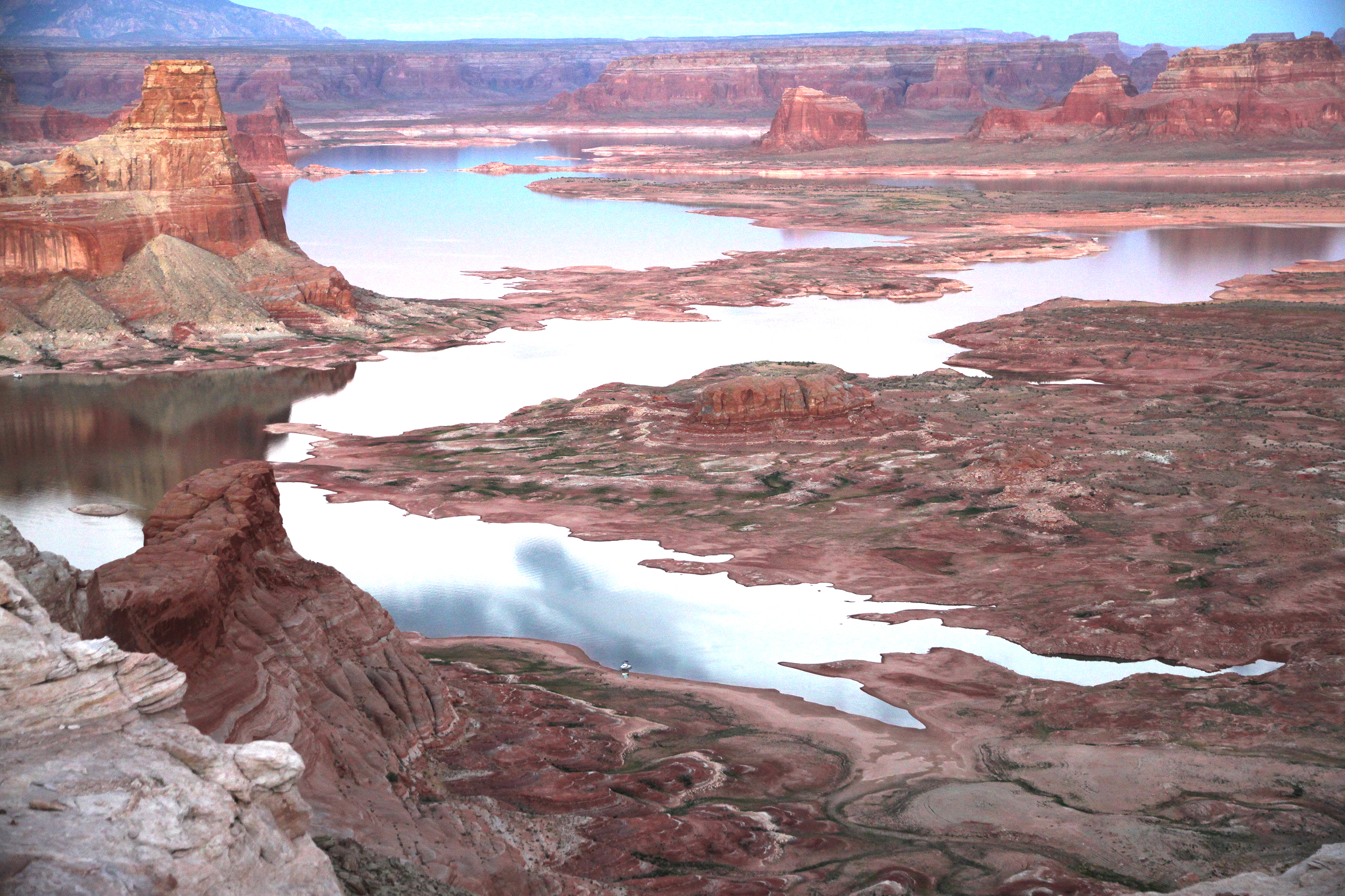 UT, CO & NV